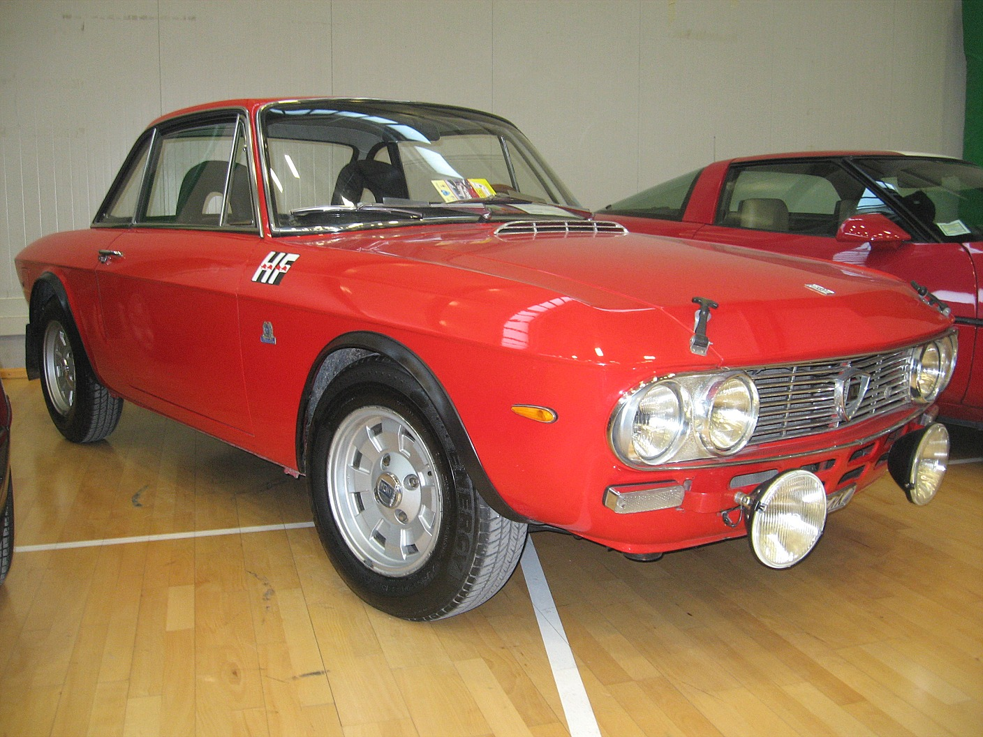 Subject:Lancia Fulvia Coupé HF Author:Luc106 Date:March 15th, 2007 Event:Old Timer Show 2008 Place/Country: Forlì, Italy I release all rights in the public domain.